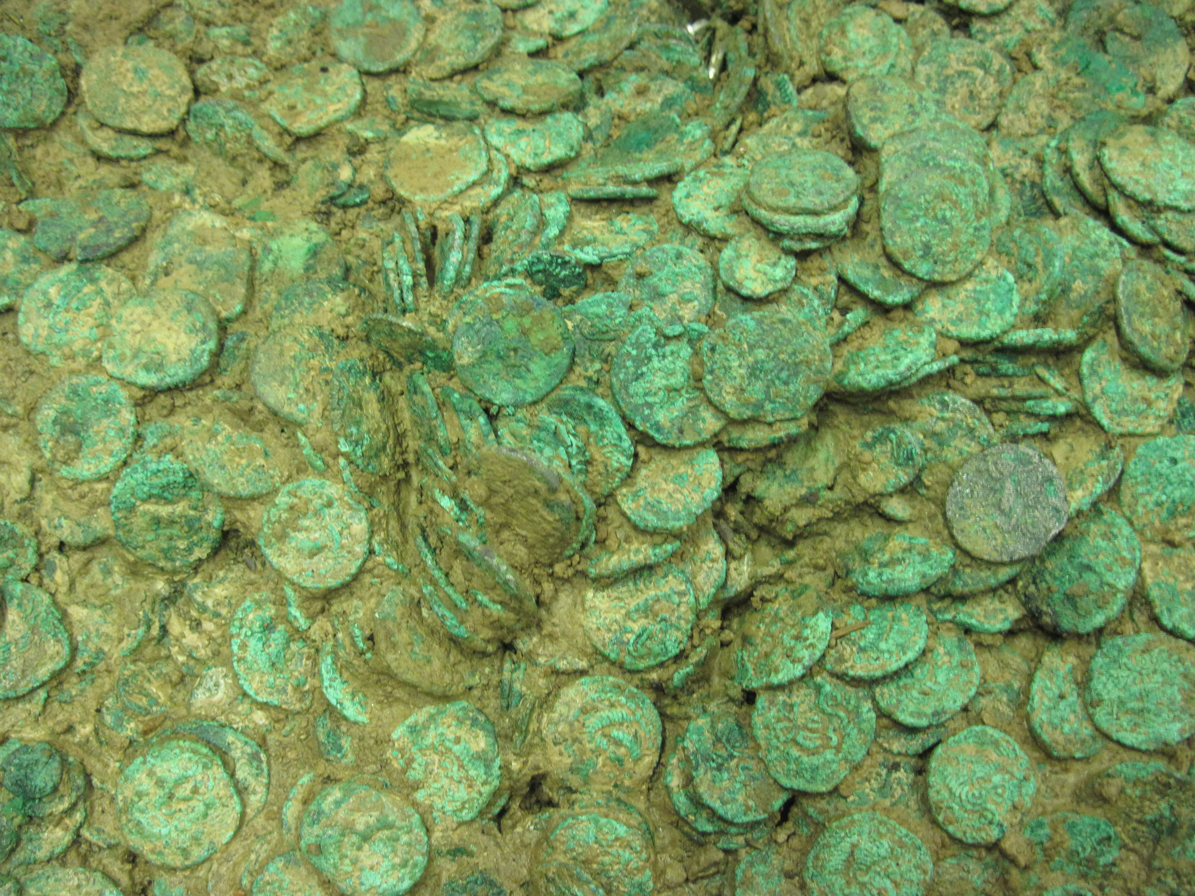 Grouville Hoard, Jersey, while undergoing cleaning and investigation 2012 Nrf: L'anichette dé Grouville, 2012